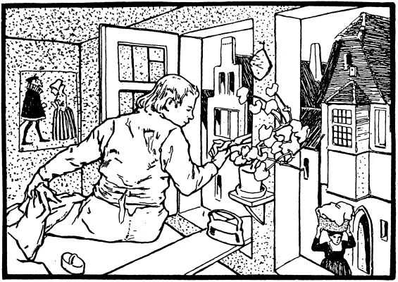 Illustration by Otto Ubbelohde to the fairy tale The Brave Little Tailor